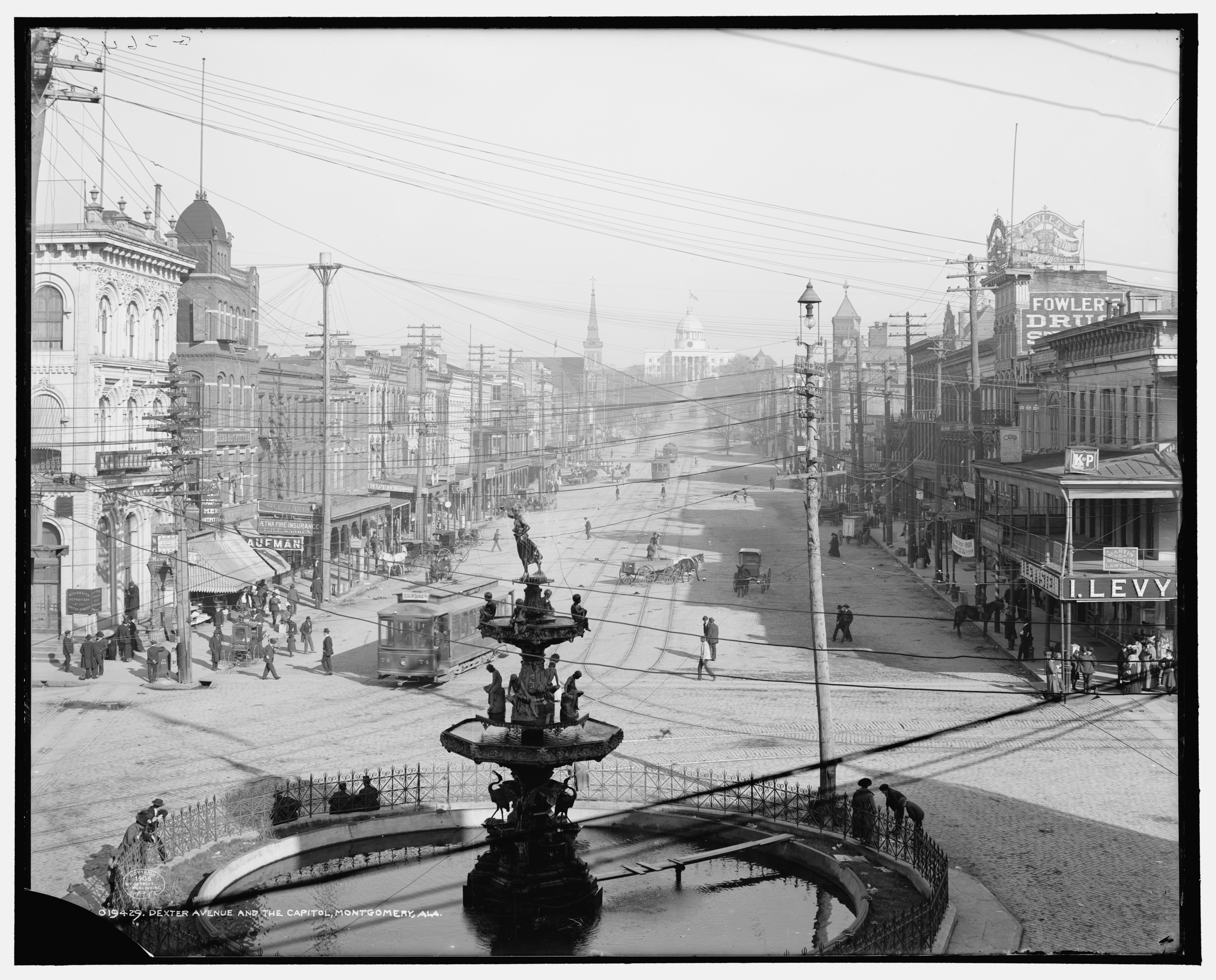 Dexter Avenue and the Capitol, Montgomery, Ala.